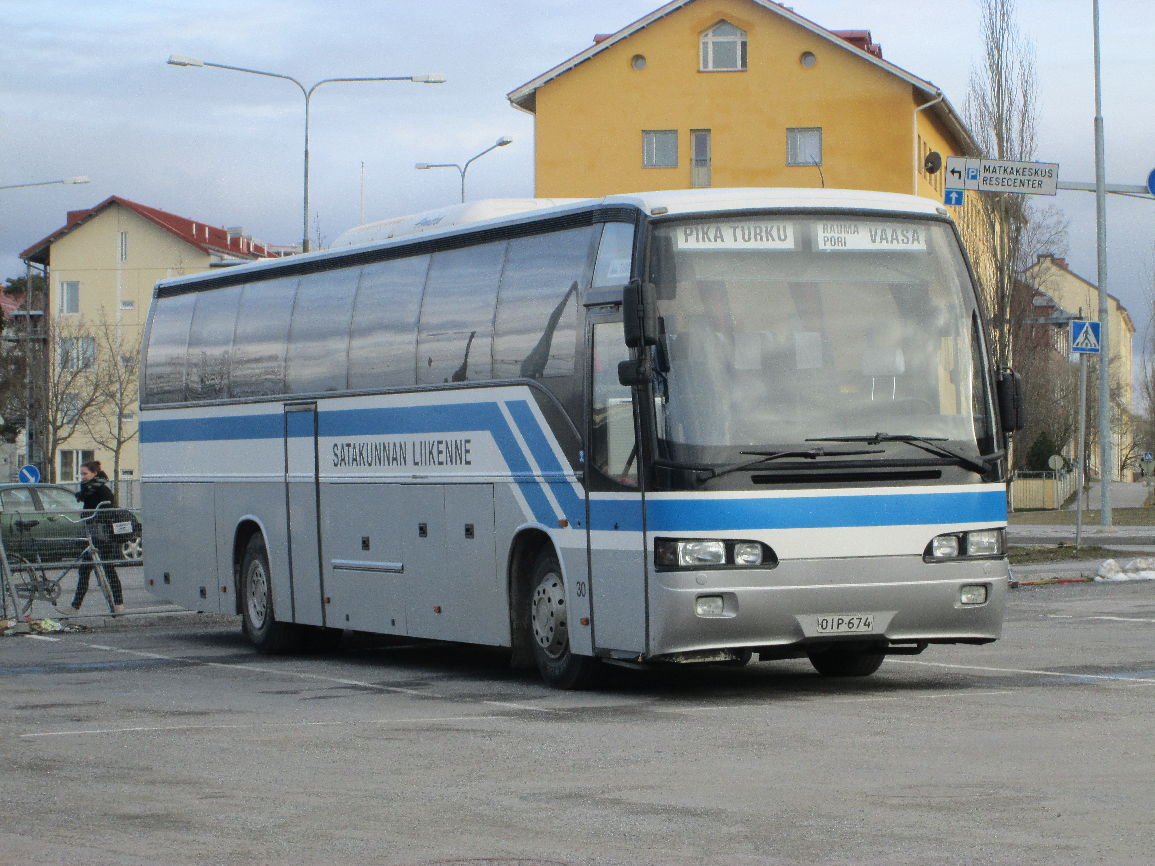 Satakunnan liikenne 30 OIP-674 Carrus Star 502 / Volvo B10M-C